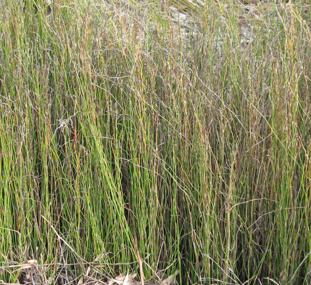 Lepyrodia muelleri (cultivated, labelled) Royal Botanic Gardens Cranbourne, Victoria, Australia